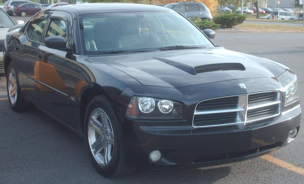 2006-present Dodge Charger R/T photographed in Montreal, Quebec, Canada.